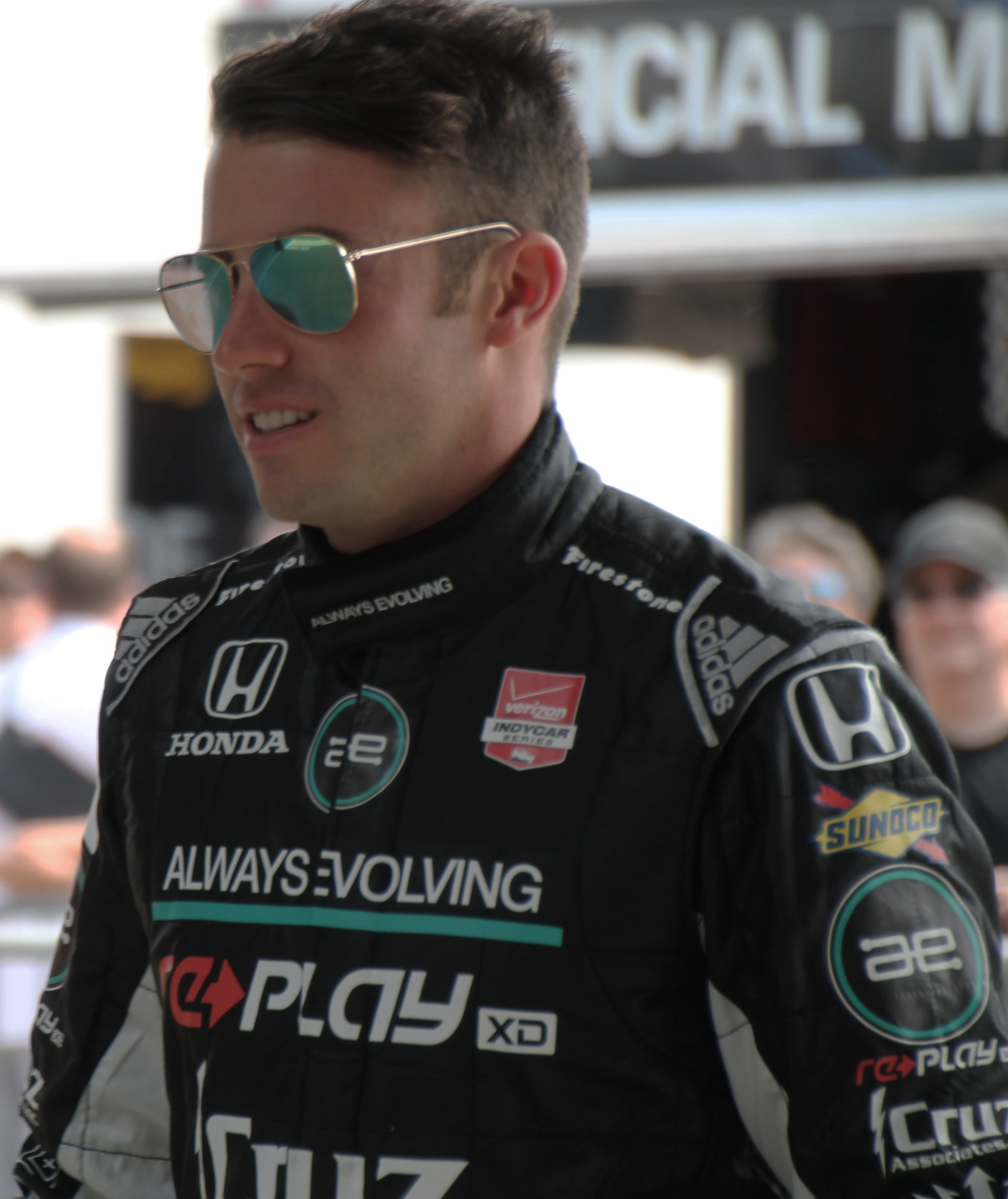 James Davison at the 2015 Indianapolis 500